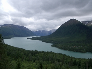 Cooper Landing, also commonly referred to as Cooper's Landing or The Landing, is a rural community on Alaska's Kenai Peninsula, about 160 kilometers south of Anchorage.